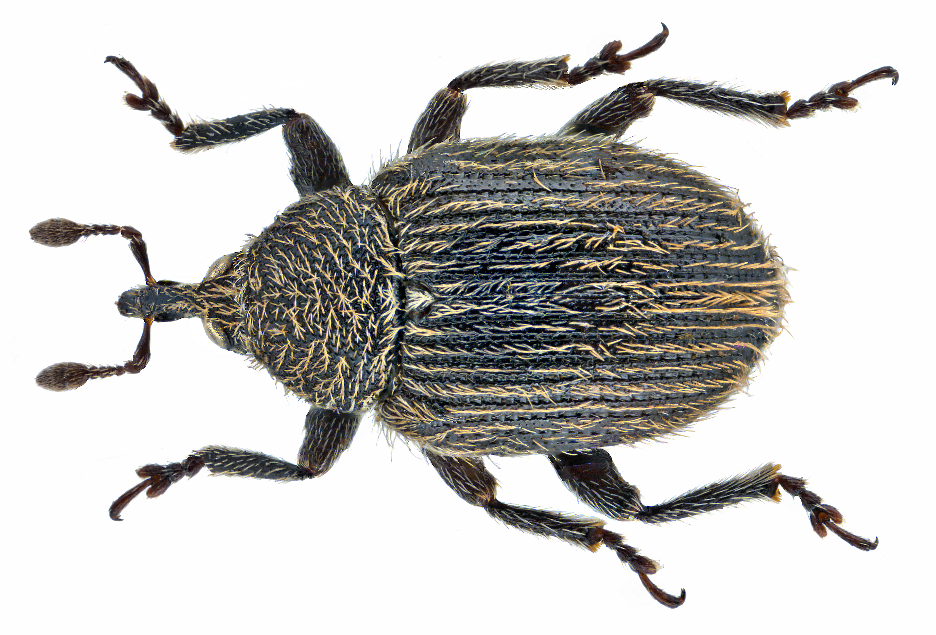 Family: Curculionidae Size: 2,7 mm (2,5-3,1 mm) Origin: Southern and Central Europe, mediterranean landscape, Caucasus Ecology: lives on Linaria species and Chaenorrhinum minus Location: Germany, Bavaria, Upper Franconia, Naila, Selbitztal leg.det. U.Schmidt, 13.VII.2004 Photo: U.Schmidt, 2014